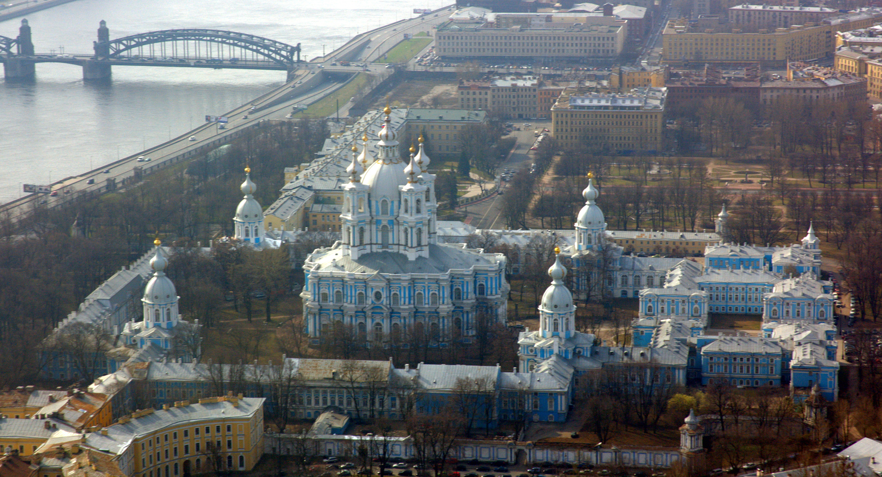 Smolny Convent on the bank of the River Neva in Saint Petersburg, Russia. The monastery was closed by the Soviet authorities in 1923. Since the 1980s, the Cathedral is used primarily as a concert hall and the surrounding convent buildings house various offices and government institutions as well as some faculties of the Saint Petersburg State University.